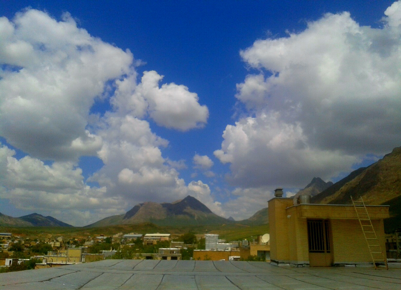 view of Tsikhe mountain from Fereydunshahr